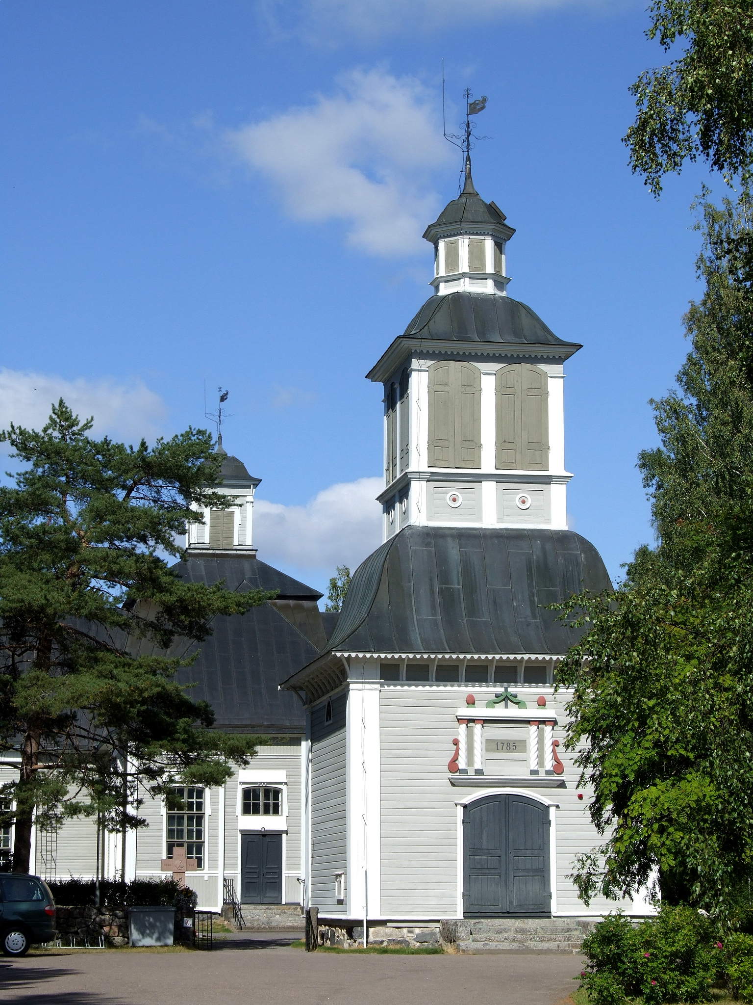 The wooden church and belfry of Rantsila, Finland. The church in Rantsila was built by Simon Silvén and completeted in 1785